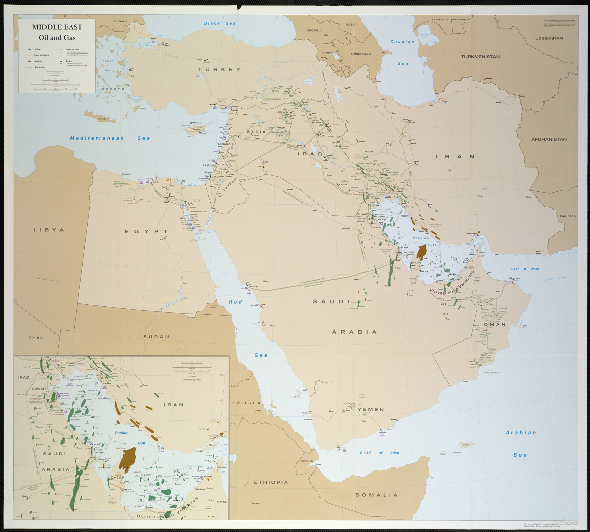 Zoom into this map at . Author: United States.Central Intelligence Agency. Publisher: Central Intelligence Agency Date: 1993 Location: Middle East Scale: Scale 1:4,500,000 ; Call Number: G7421.H8 1993.U5